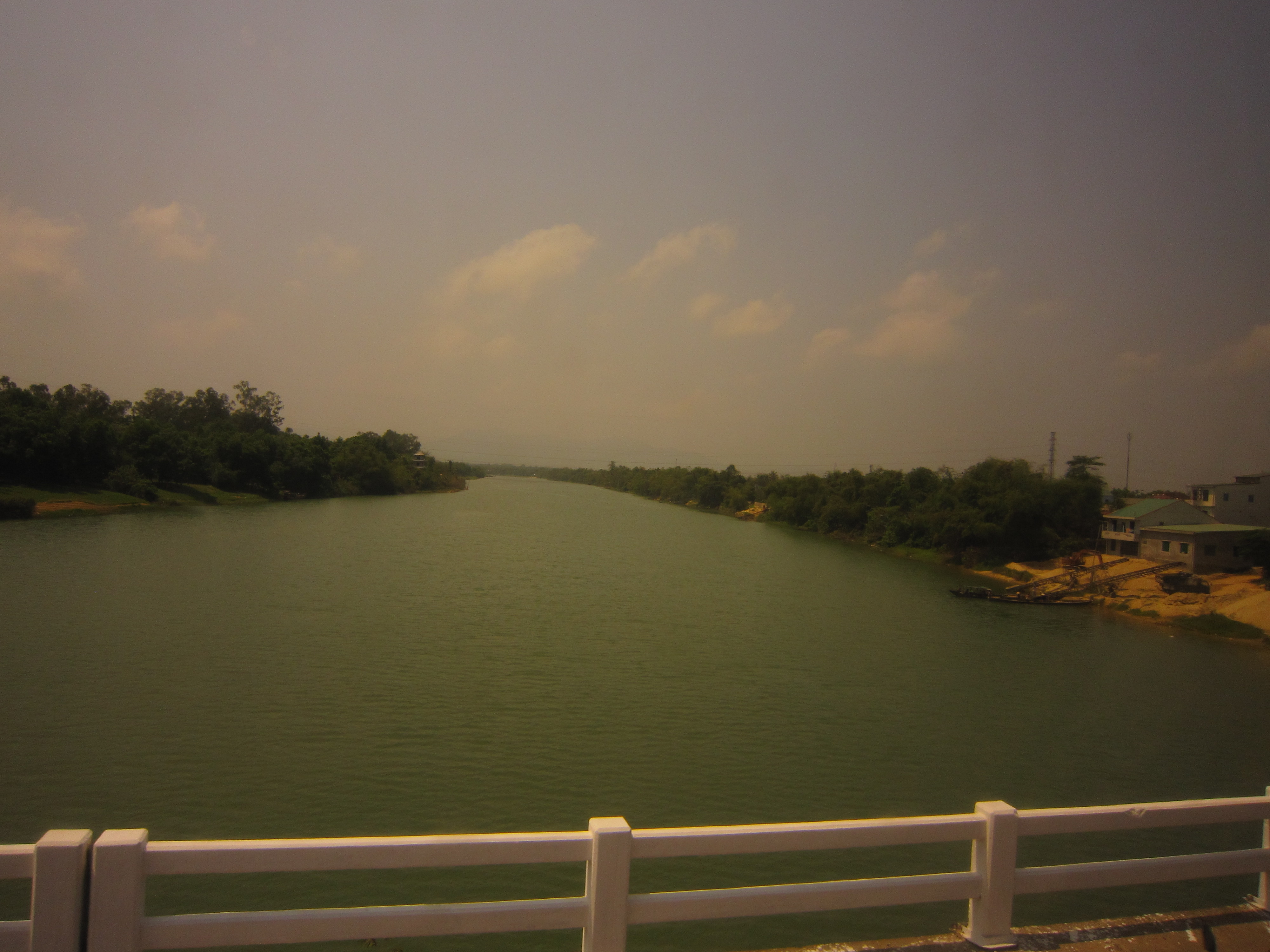 Bồ River